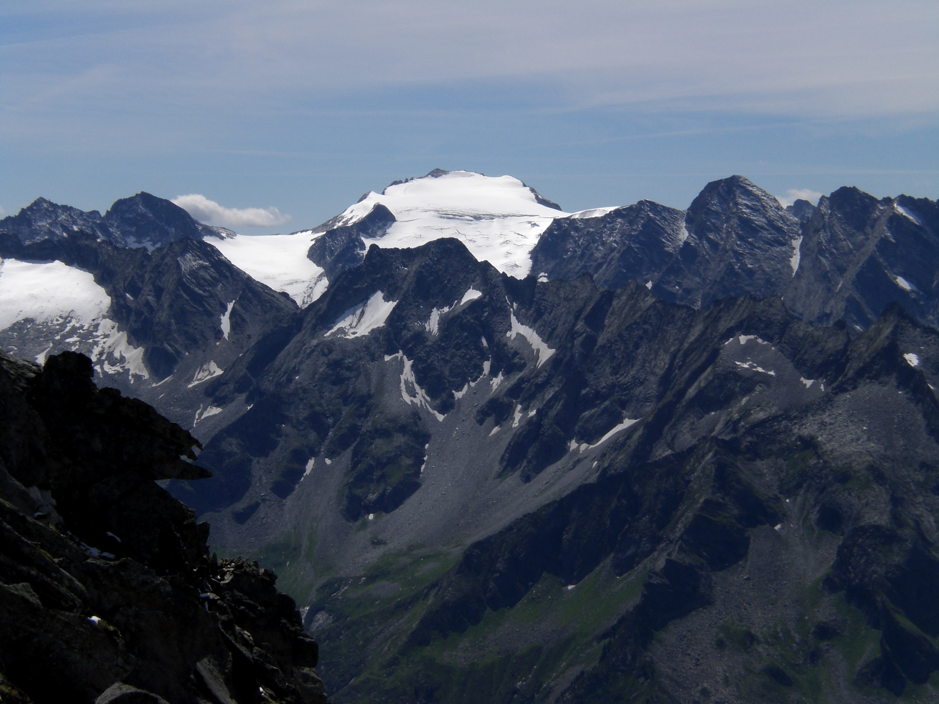 View of the Schwarzenstein peak in the Zillertal Alps, from Ahornspitze peak.